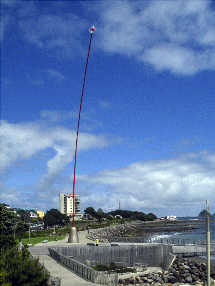 The 45 metre high Wind Wand of Len Lye (1901-1980), on the waterfront at New Plymouth, New Zealand. Photo by Hans Klueche, Bielefeld (Germany), 2005-11-10